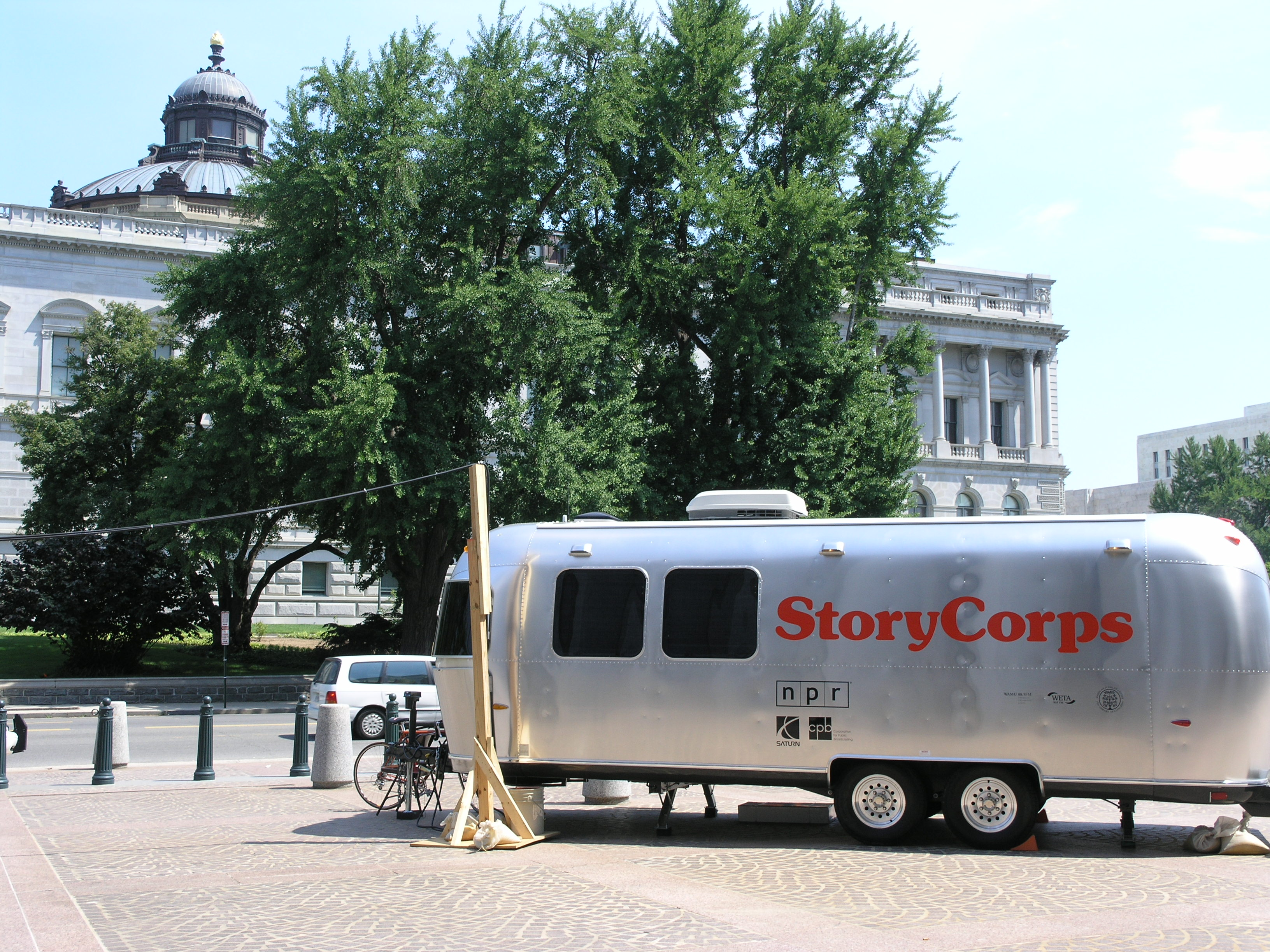 StoryCorps booth vehicle